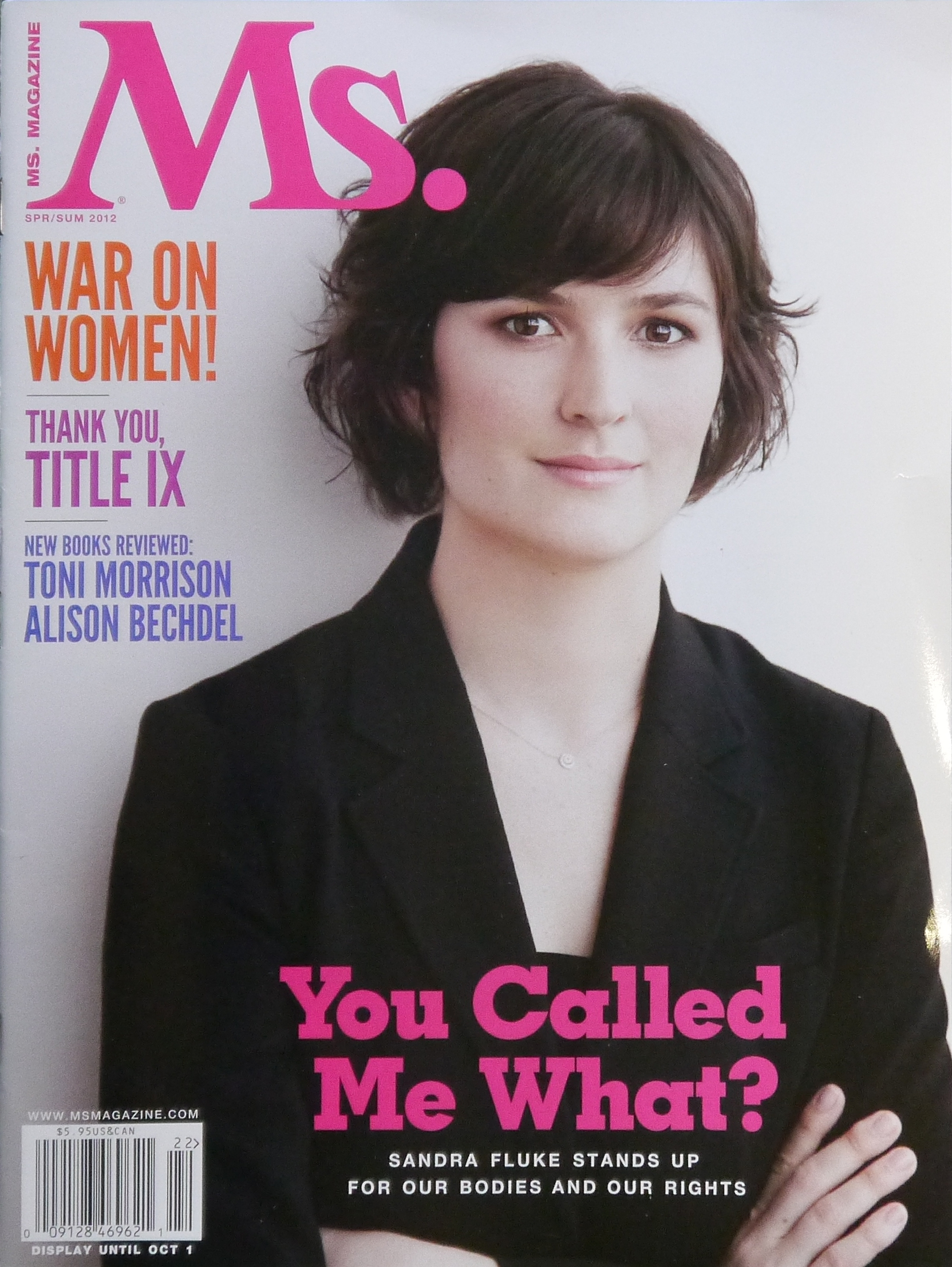 Ms. magazine, Spring 2012 with Sandra Fluke